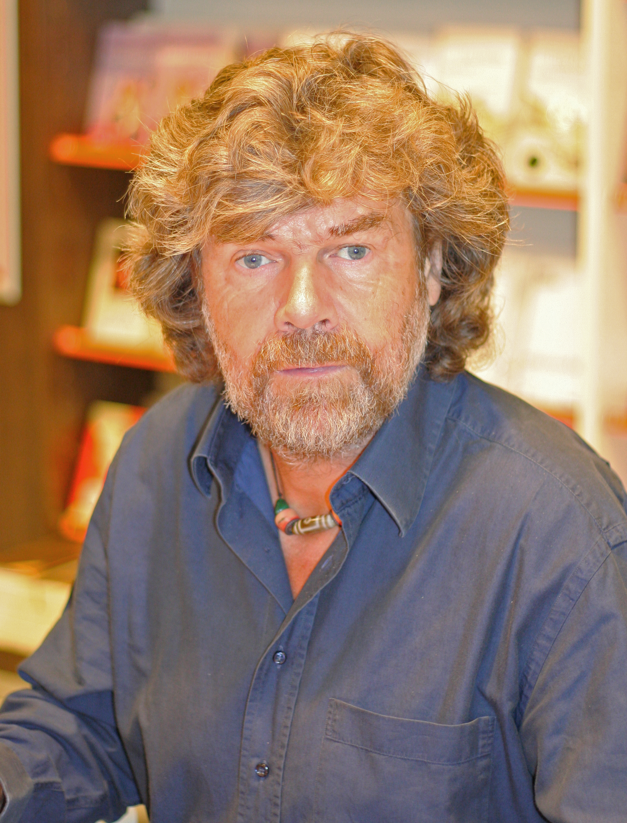 Mountaineer and author Reinhold Messner authographs in Cologne, Germany.